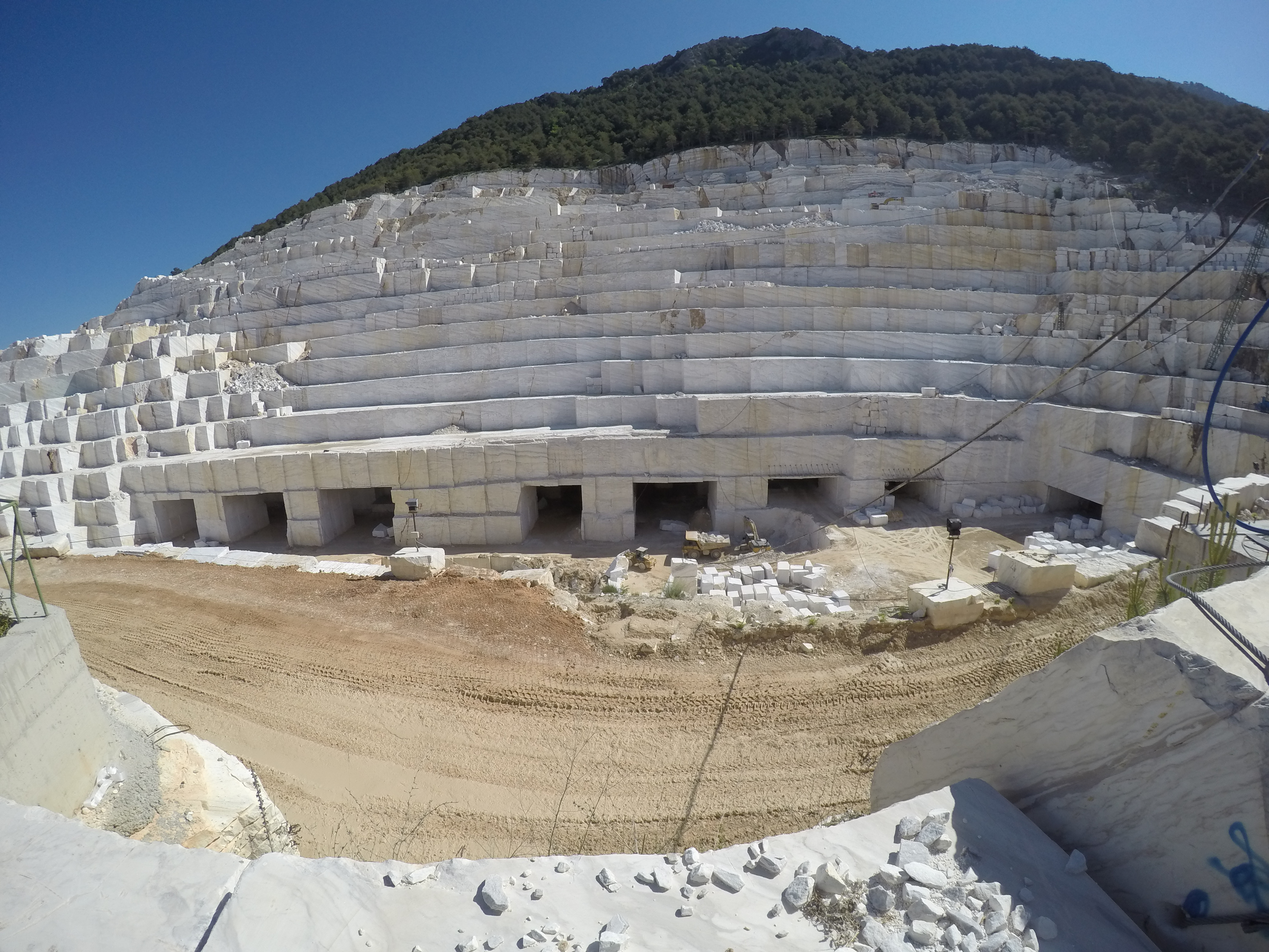 Tunnel excavation for WHITE marble in Volakas in Makedonia – Greece. F.H.L. I. KIRIAKIDIS GROUP